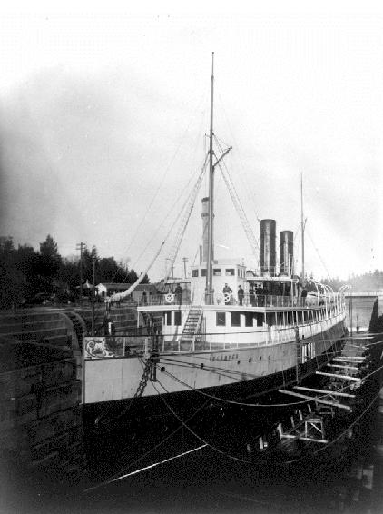 Steamship Islander in drydock at Esquimalt, BC, ca 1890s.